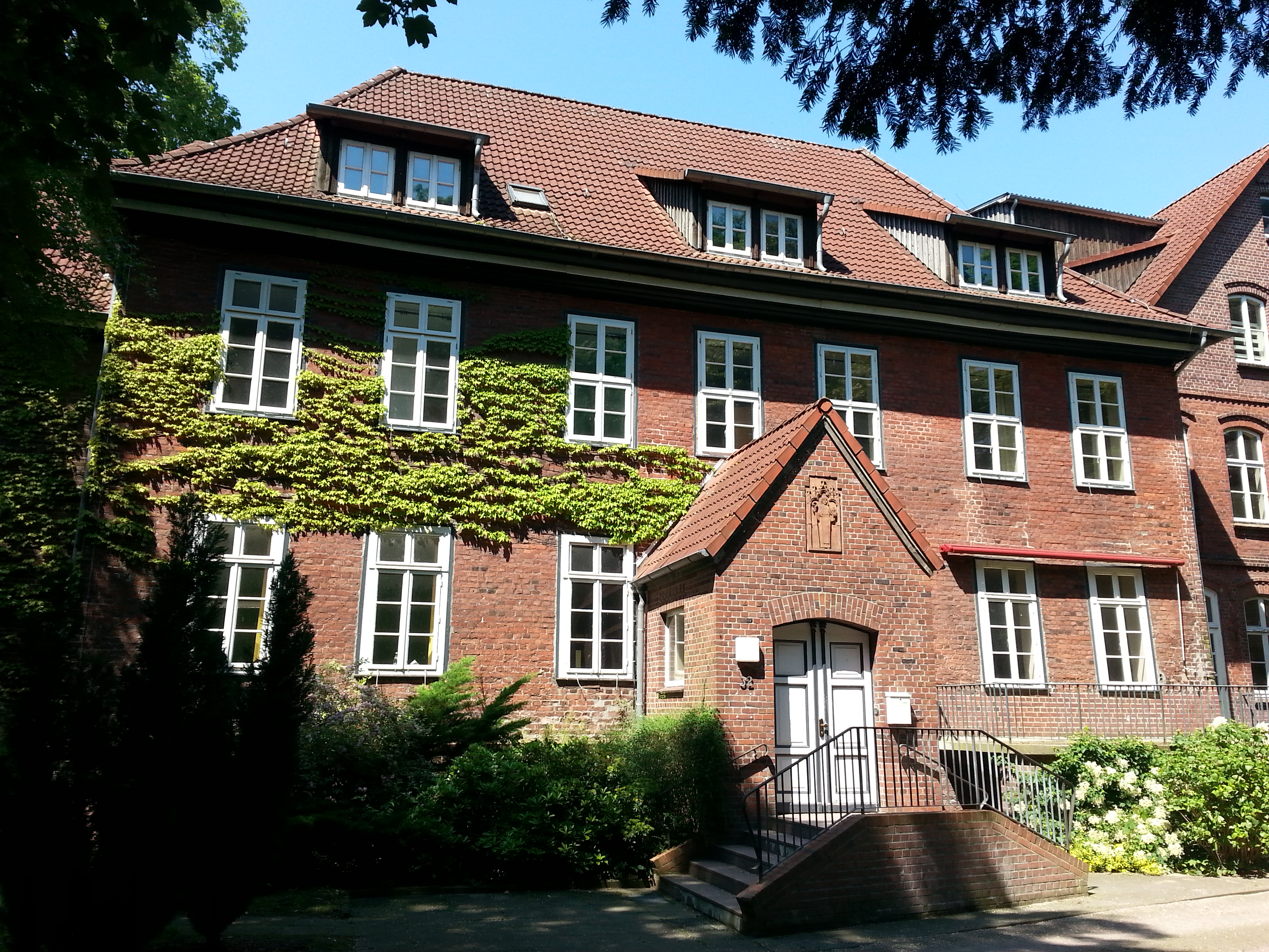 The eastern (front) façade of the Steinmetz-Haus (formerly called Amtshaus; i.e. bailiff's house), built 1728/1729 by the Himmelpforten bailiwick (Amt Himmelpforten). After the Himmelpforten bailiwick had merged in the new Stade districts in 1885 the building was bought in 1891 by Hermann Christian Ludwig Steinmetz (1831-1903), general superintendent of the Bremen-Verden General Diocese of the Church of Hanover. Steinmetz founded in the building a Rettungshaus (i.e. rescue house, an educational and benevolent institution for neglected children), from 1892 to 1943 run by the Inner Mission. From 1947 on the house served as retirement home, as of 2016 the Steinmetz-Haus is evacuated since the edifice does not meet modern fire protection regulations.